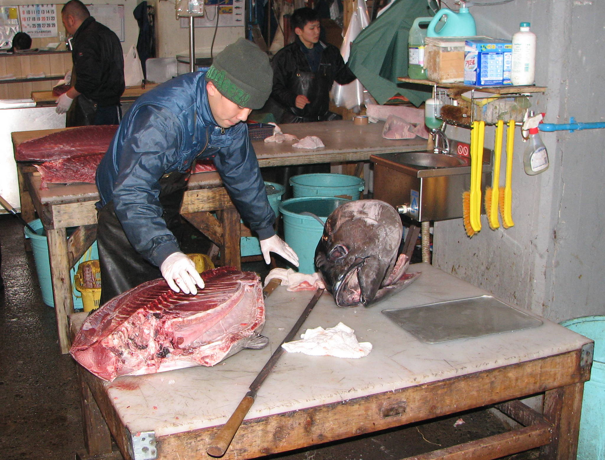 Tsukiji fish market, Tokyo, Japan